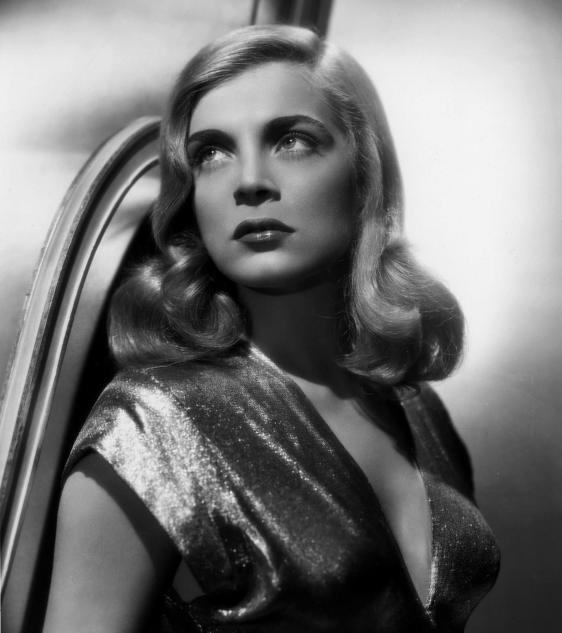 Publicity still of Lizabeth Scott for the 1945 film "When You Came Along" Other information Paramount publicity still released for free use by newspapers and magazine in 1945. Copyright to film itself was not renewed.